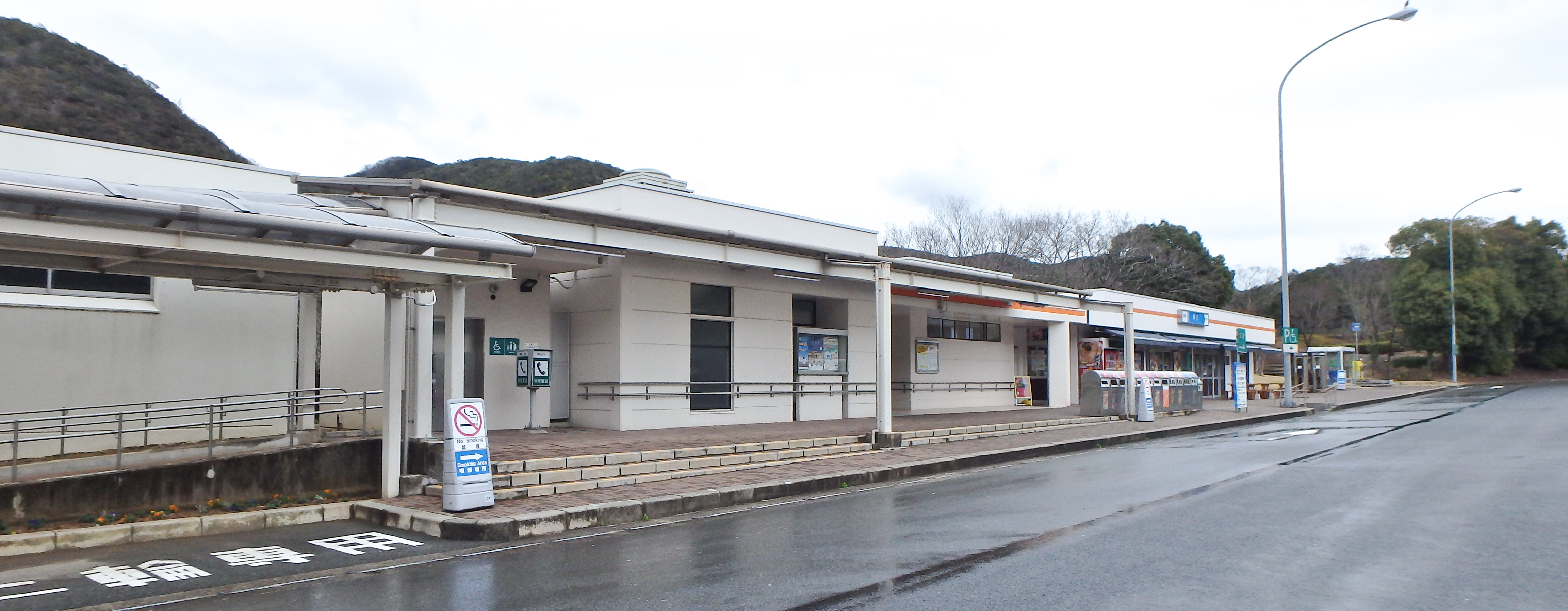 Fukuishi Parking Area for Hyogo,Okayama prefecture,Japan